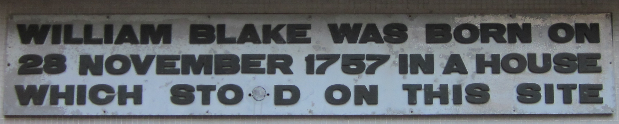 Plaque at 28 Broadwick St, London. It was formerly the site of the hosiery shop at 28 Broad St belonging to William Blake's father; William was born here on 28 November 1757 and lived here until he was 25. The shop has been knocked down and turned into a block of flats called William Blake House.